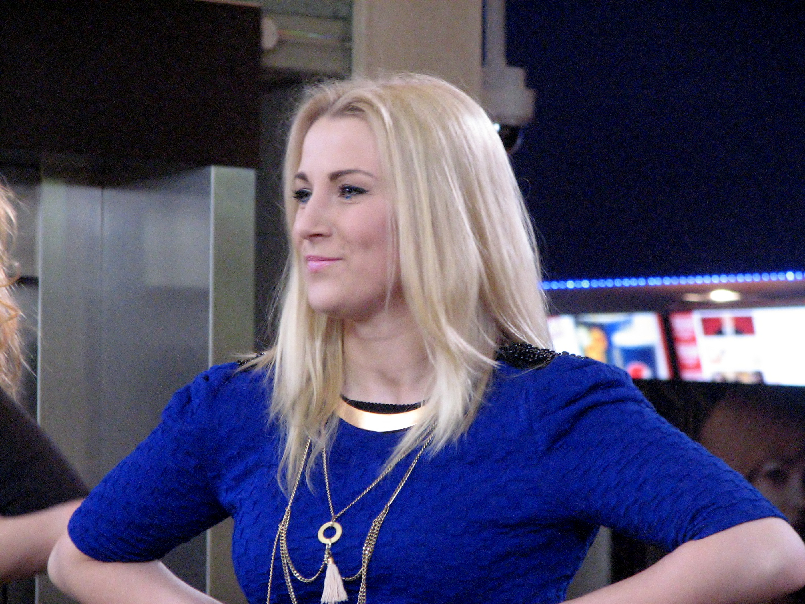 Estonian singer Tuuli Rand performing in Solaris centre, Tallinn